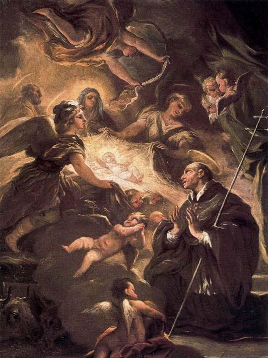 San Lorenzo Giustiniani adoring the Baby Jesus. Private Neapolitan collection.